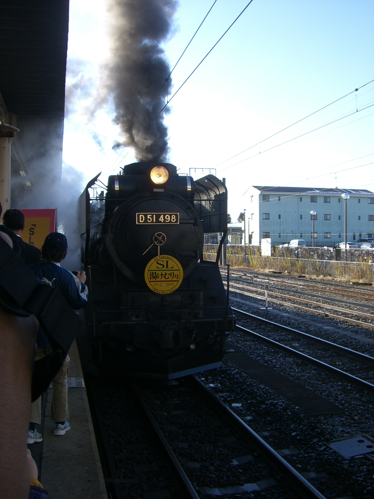 SL Yukemuri go train which ran on Rikuu East Line on 18 and 19 December 2010